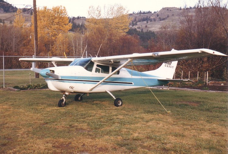 I took this photo of a 1960 model Cessna 210 (C-GXCT) in Penticton BC in 1986.